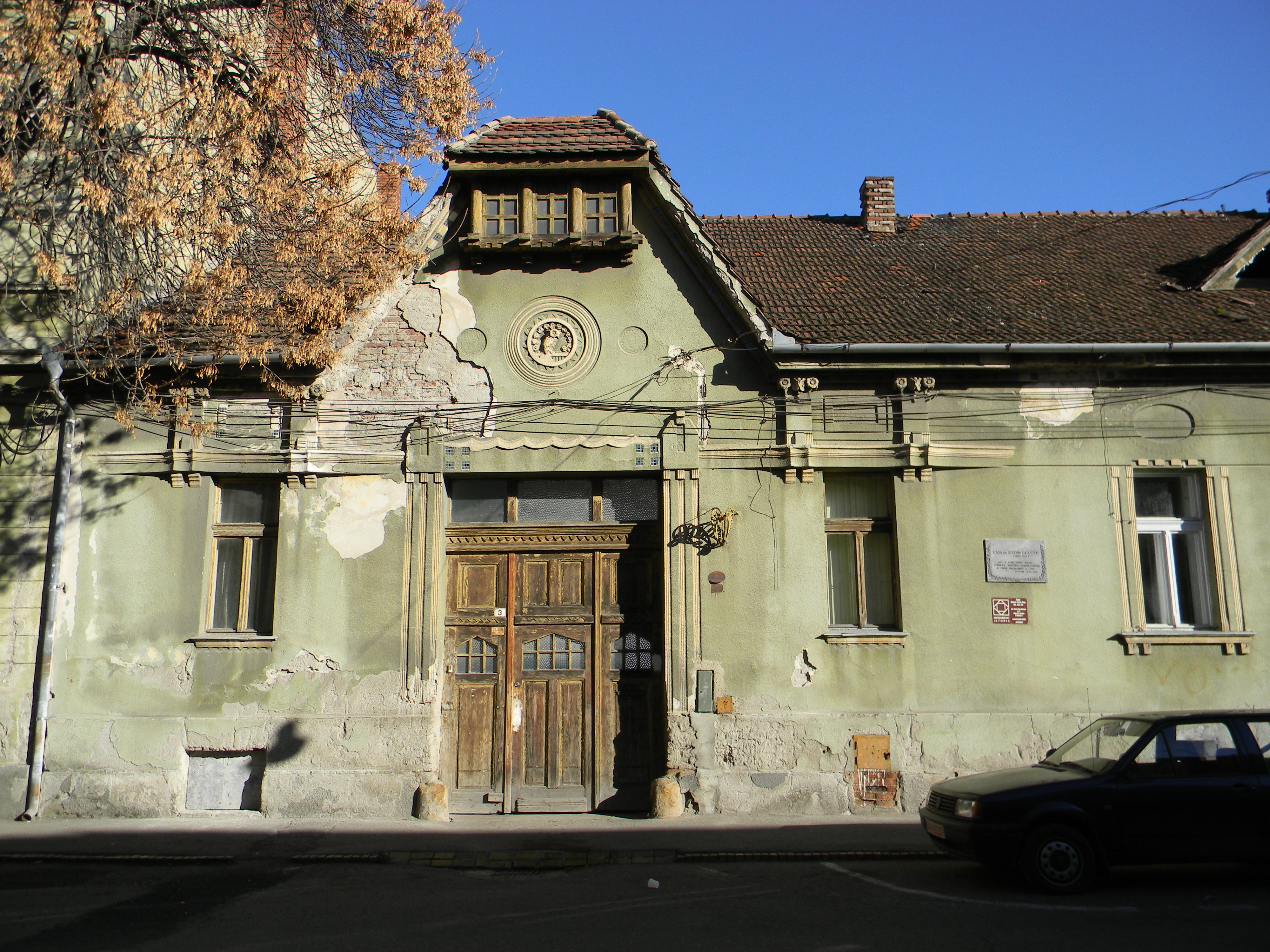 Facade - Frontal view